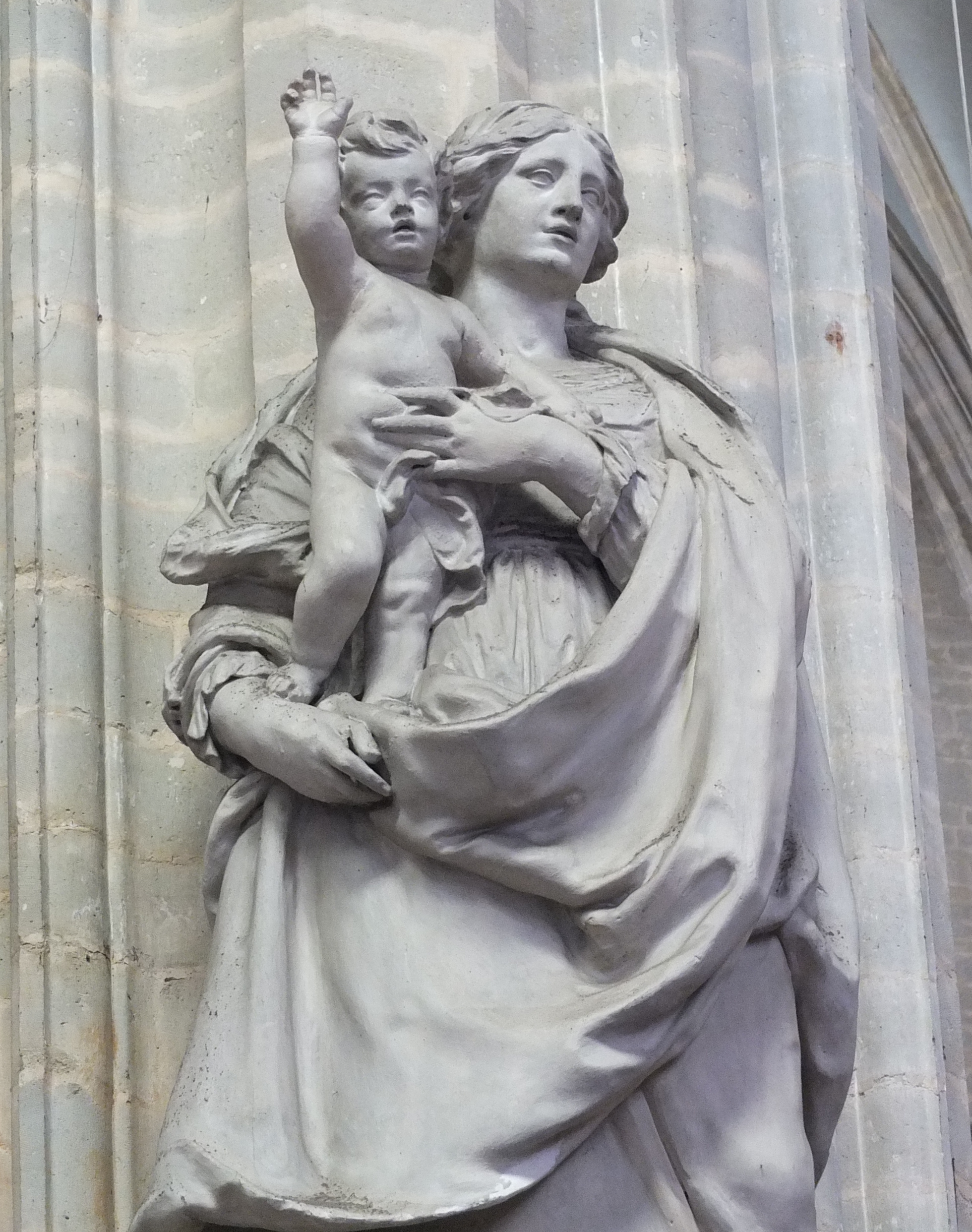 Statue of Madonna and Child (1640) by Lucas Faydherbe in Onze-Lieve-Vrouw-over-de-Dijlekerk (Church of Our Lady across the river Dijle) in Mechelen, Flanders, Belgium, after a drawing by P.P. Rubens